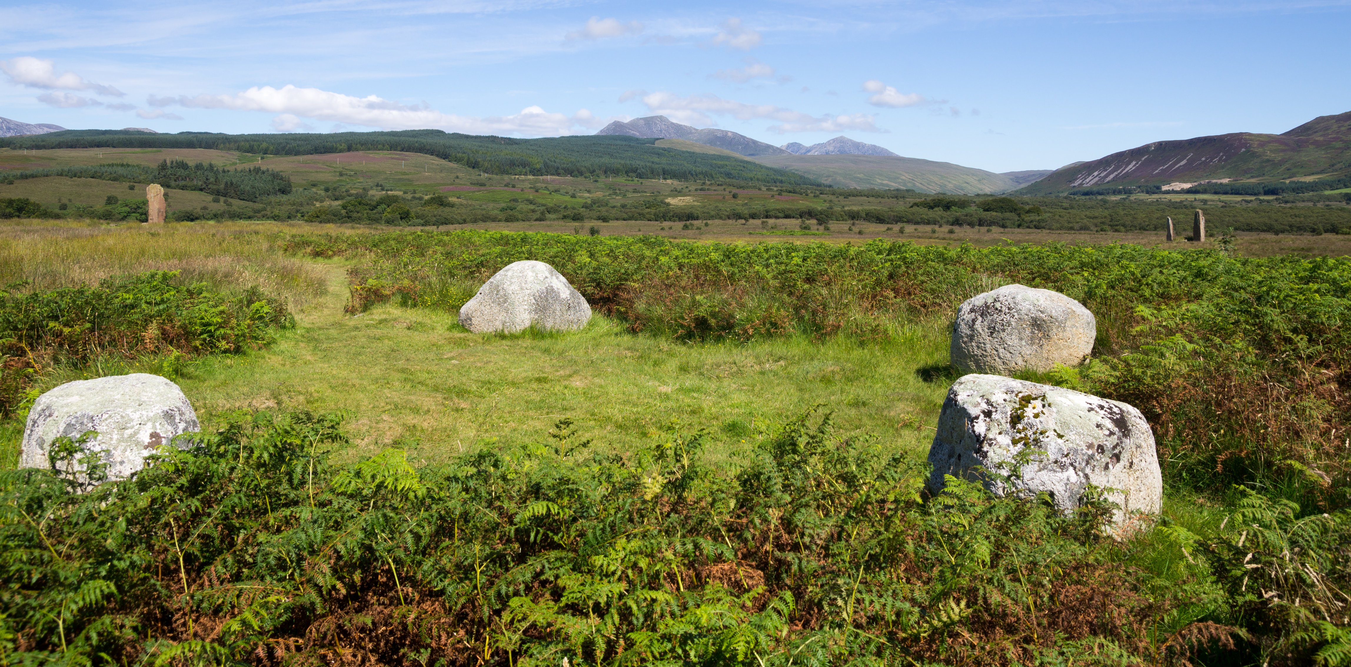 Circle 4 at Machrie Moor. Four rounded granite blocks, just less than 1m high. In the middle distance on the left is the large stone of circle 3 and on the right are the three large stones of circle 2. In the far distance are the mountains of the north of Arran, consisting of Beinn Tarsuinn and Goat Fell.